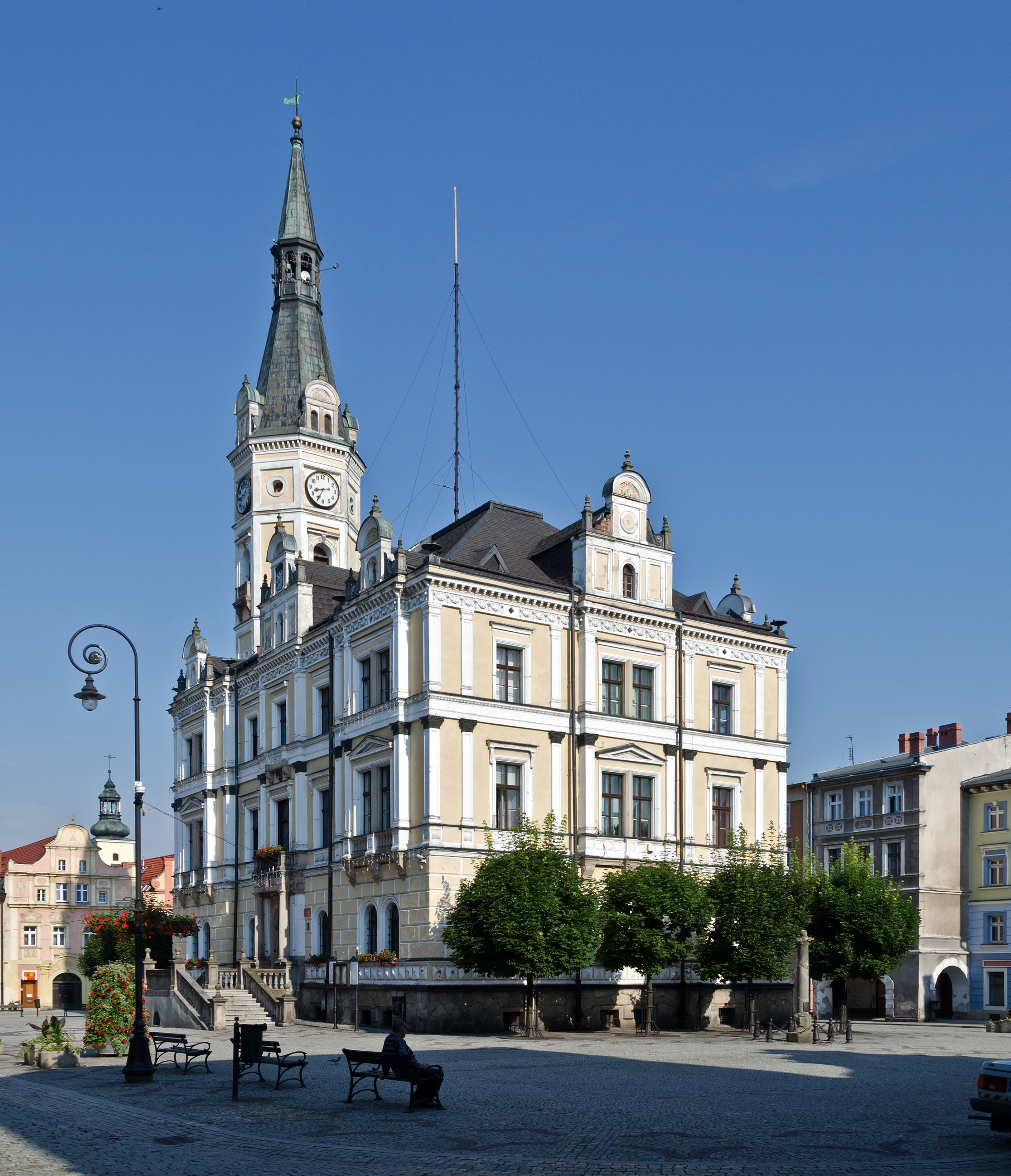 Town hall in Lądek-Zdrój